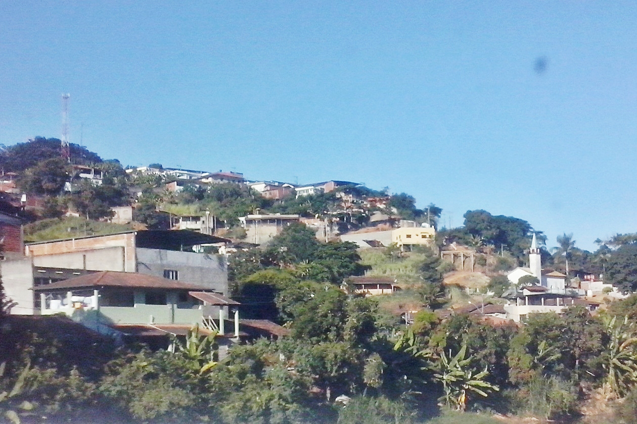 Partial view of Antônio Dias, Minas Gerais, Brazil, on the left of the Piracicaba River.